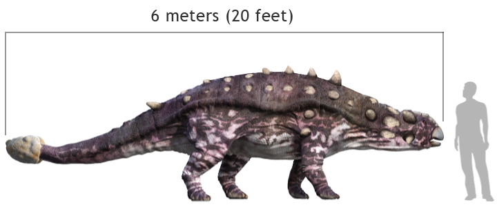 Euplocephalus size comparison with human, 6 meters (20 feet)